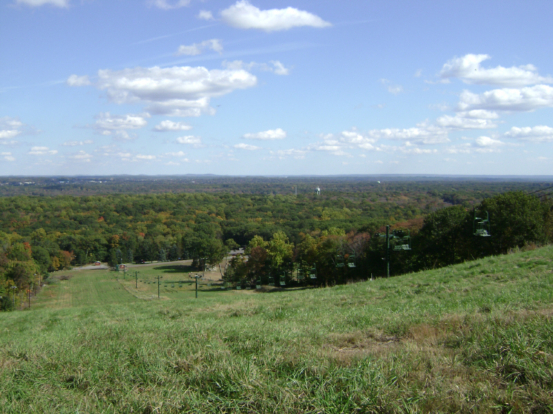 View facing east from the Campgaw Mountain ski slope on October 11, 2009. The more than ten mile wide valley between the Watchung Mountains and the Hudson Palisades stretches nearly to the horizon.